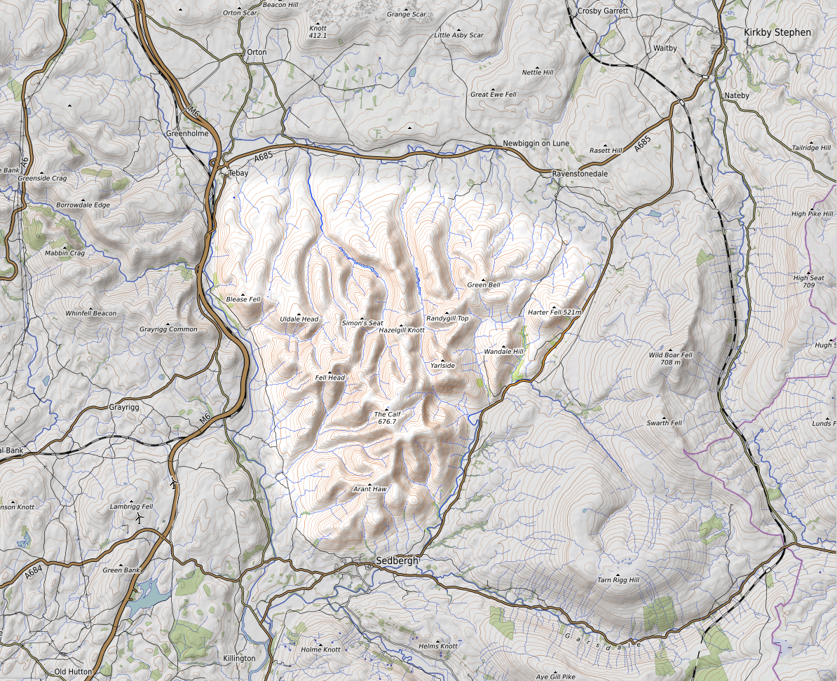 Map of the Howgill Fells